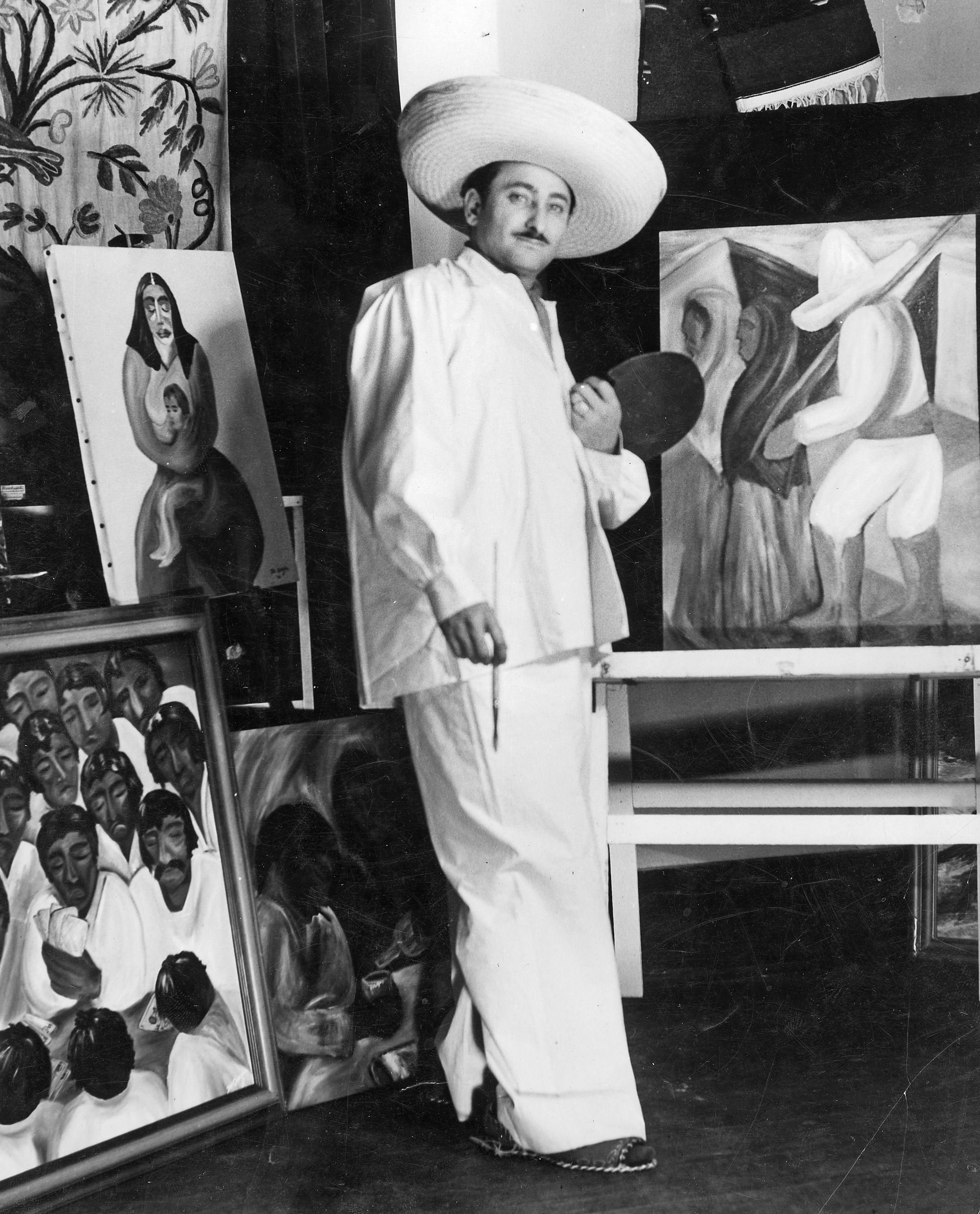 DeGrazia's apprenticeship with Diego Rivera and Jose Clemente Orozco circa. 1942